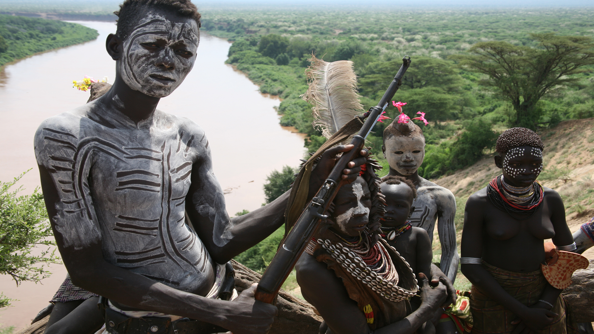 Shots depicting the Lower Valley of the Omo River, UNESCO World Heritage Site, and inhabitants of Southern Ethiopia.